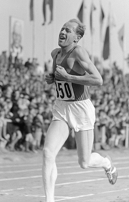 Emil Zátopek, long distance runner from Czechoslovakia, who dominated the sport around 1950